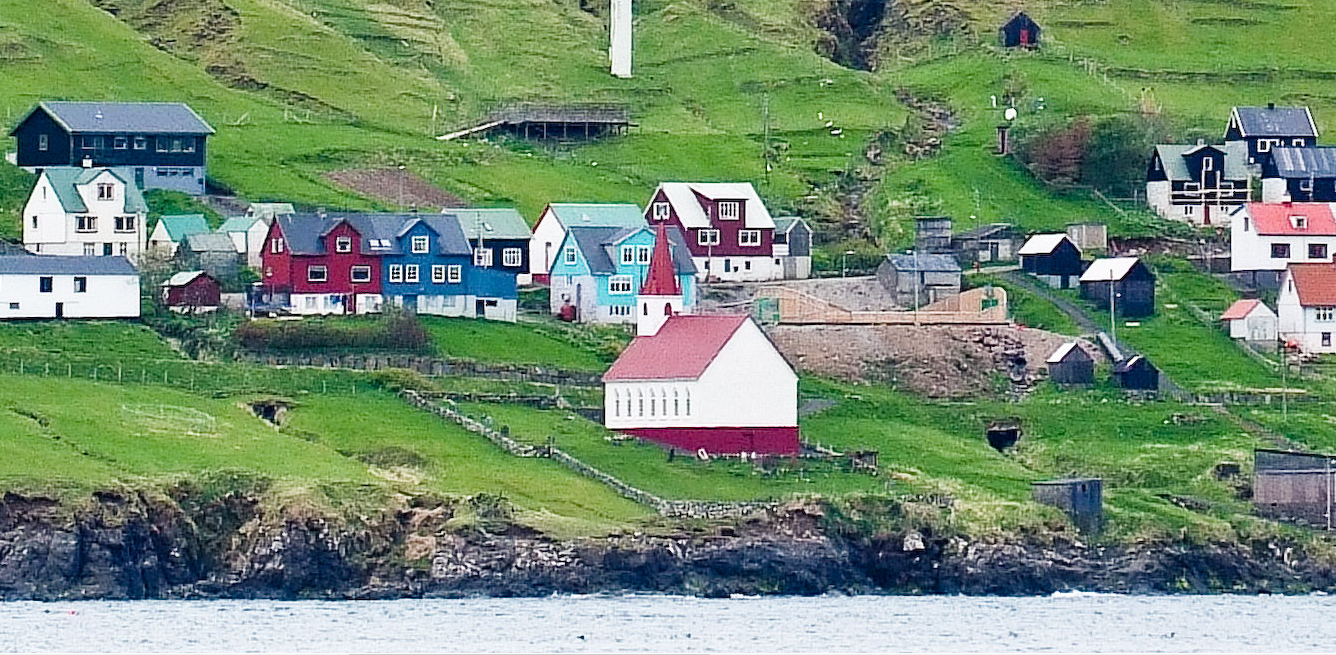 Church with center of the village Húsar on Kalsoy isle, Faroe Islands